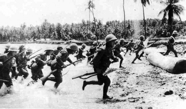 Members of the Imperial Japanese Navy disembarking during the occupation of the Andaman Islands.